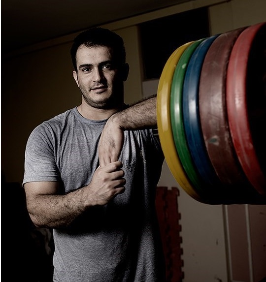 Sohrab Moradi